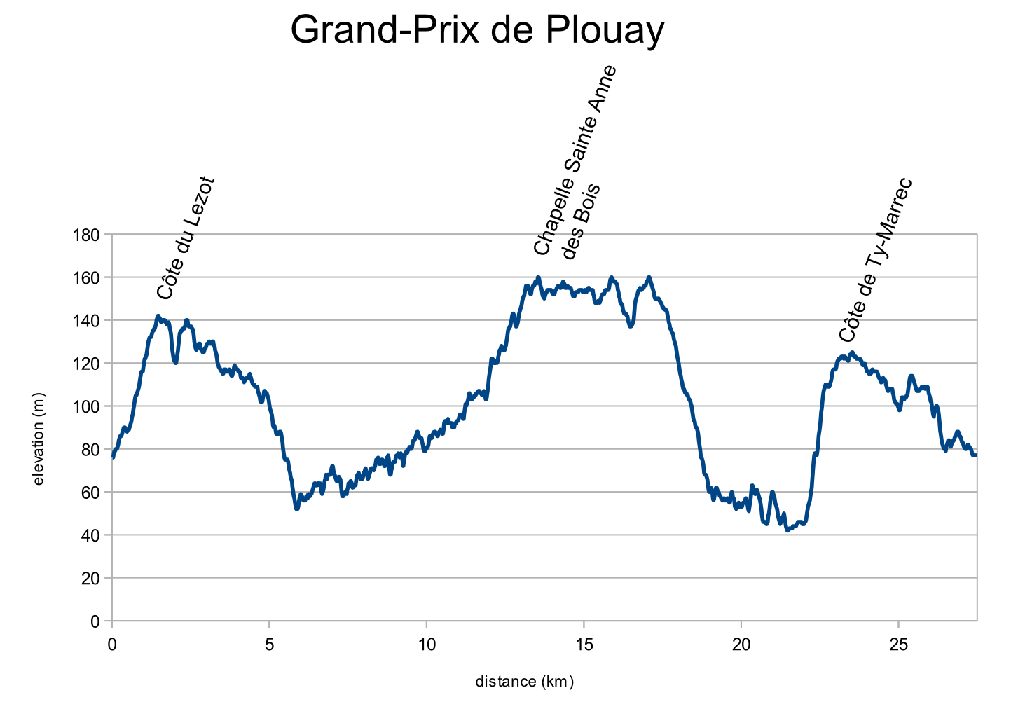 Profile of the circuit 2012 of the GP Plouay